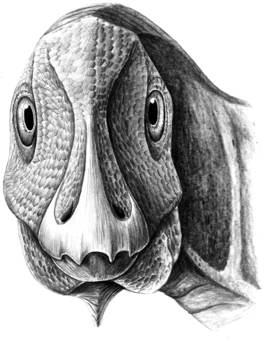 Artistic reconstruction of the pathological individual of the hadrosauroid Telmatosaurus transsylvanicus (LPB [FGGUB] R.1305) in rostral view, showing the probable life appearance of the mandibular deformity caused by ameloblastoma. (Reconstruction by M.D. D.).